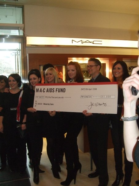 Shirley Manson donates £51,000 (U.K. pounds) to the Waverly Care charity in Edinburgh, Scotland, at an in-store at Harvey Nicholls Edinburgh store.